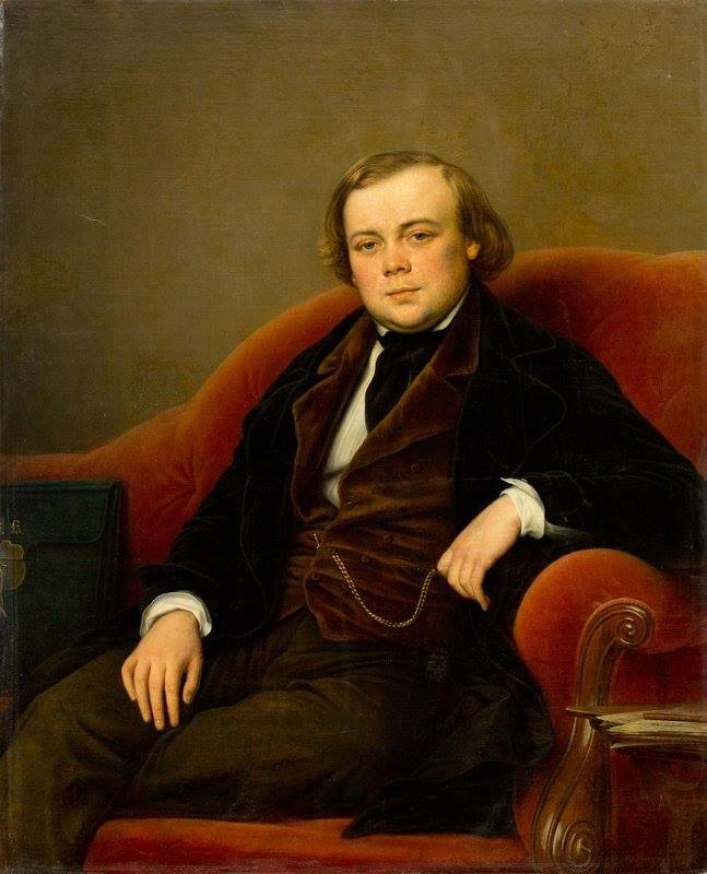 Kokorev Vasiliy Alexandrovich